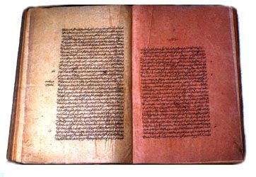 A page from Majma-ul-Bahrain (a book on comparative religion by Muhammad Dara Sikoh) in the manuscripts collection at the Portrait Gallery of Victoria memorial, Calcutta.